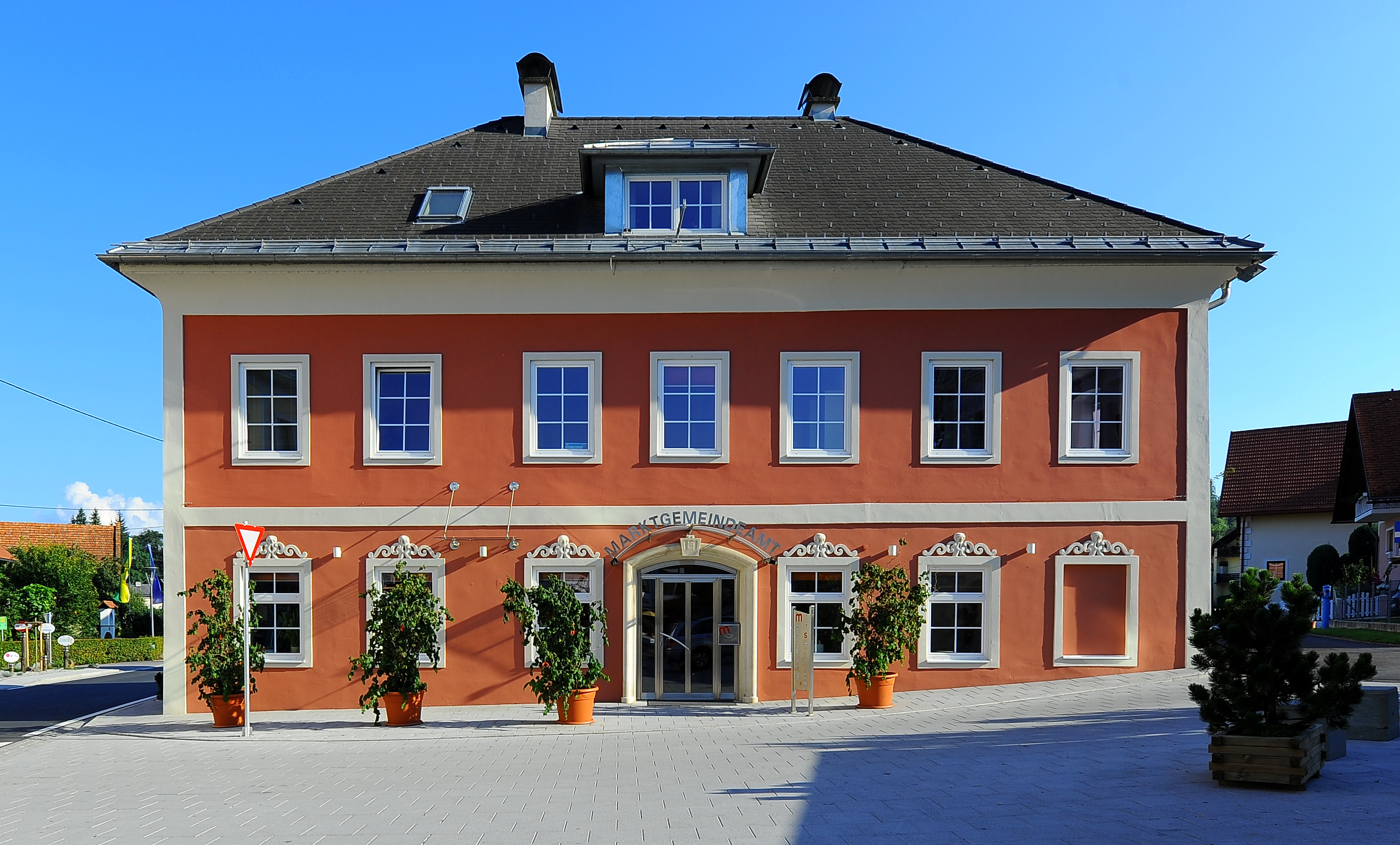 Northern view at the municipal office, market town Moosburg, district Klagenfurt Land, Carinthia, Austria, EU